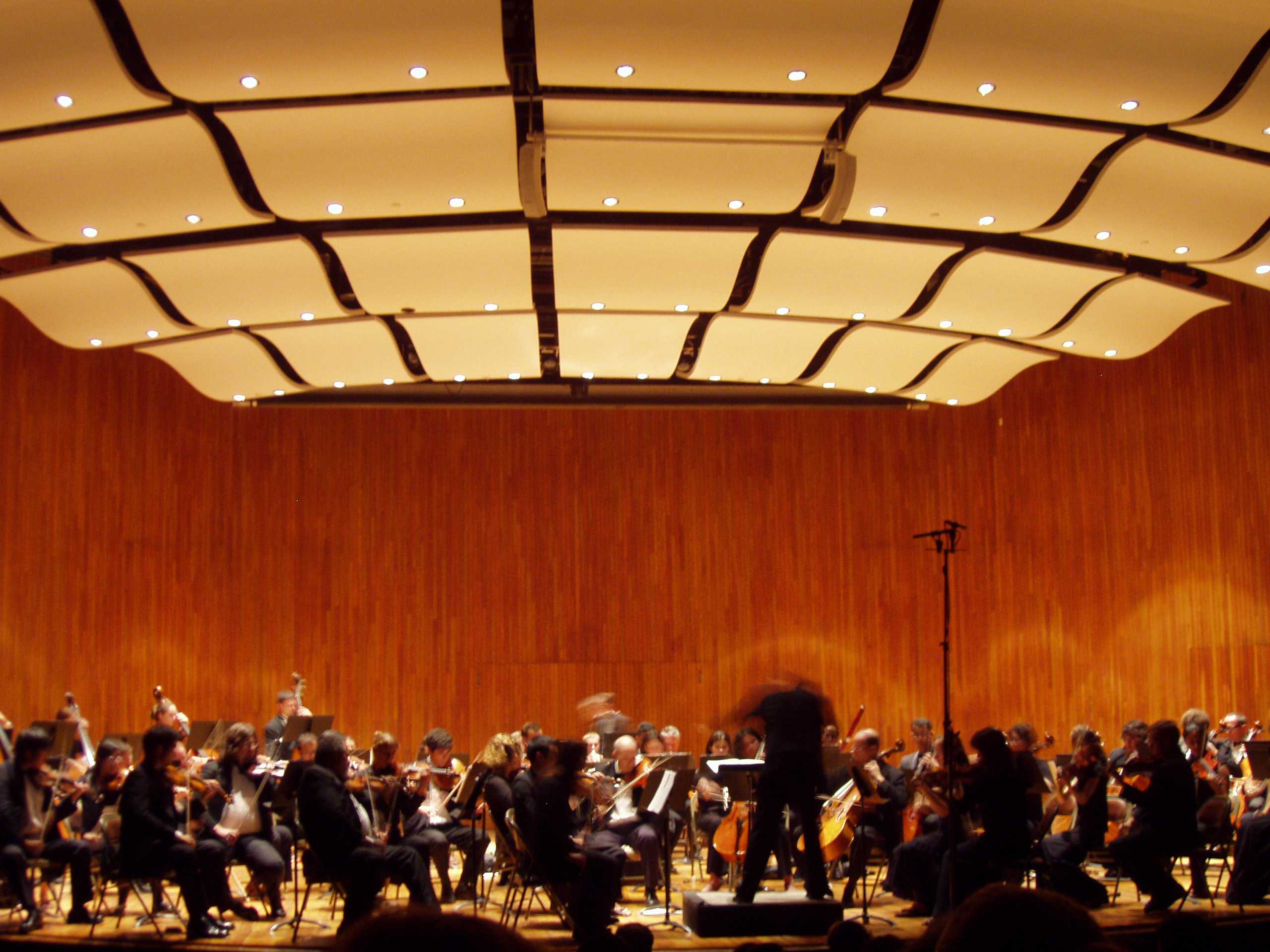 Kresge Auditorium, Massachusetts Institute of Technology (MIT), Cambridge, Massachusetts. Architect Eero Saarinen, 1954. Interior view of stage; a concert by the MIT Summer Philharmonic Orchestra. Photograph by me, August 2005.